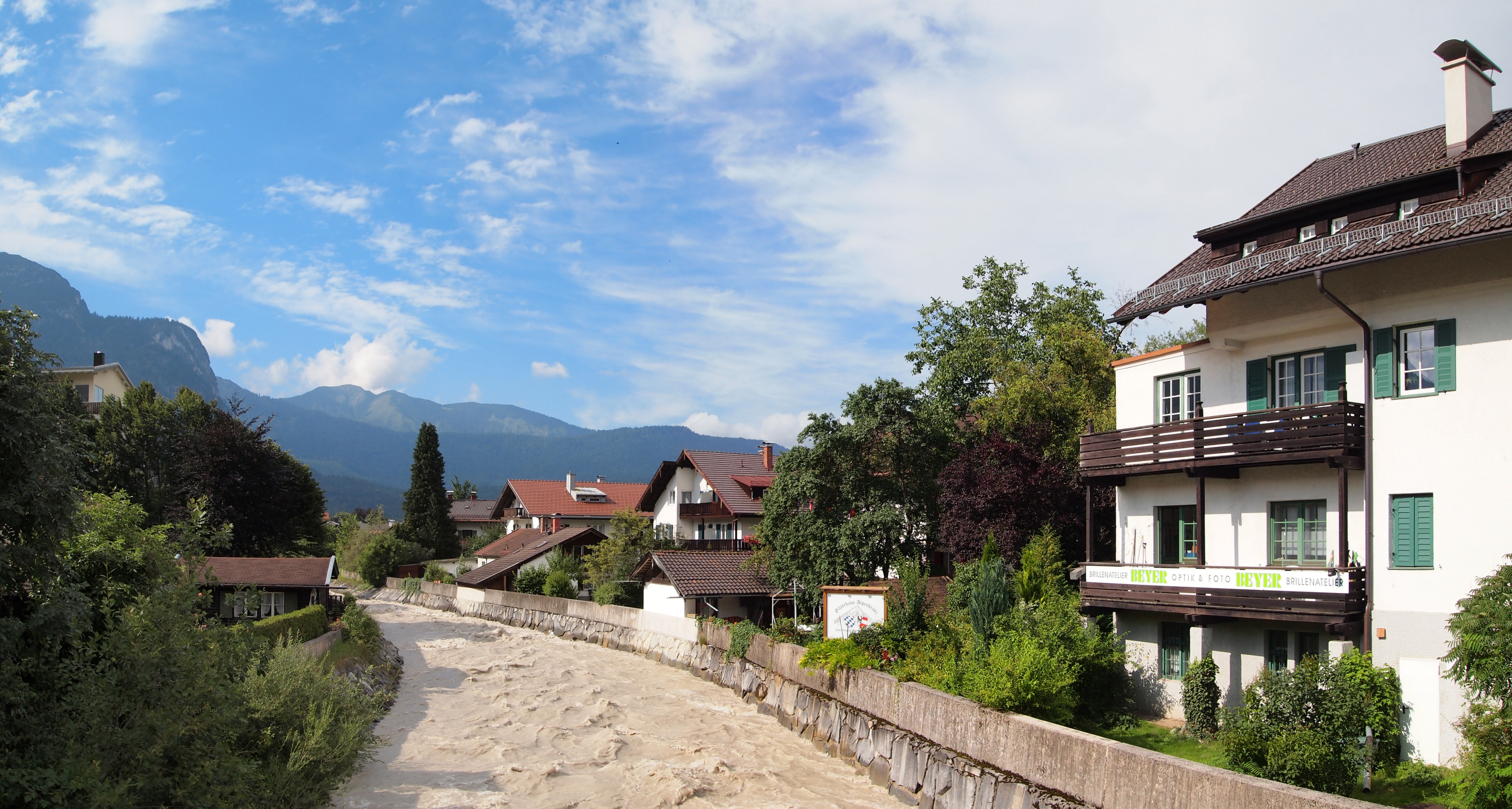 River in Garmisch-Partenkirchen.